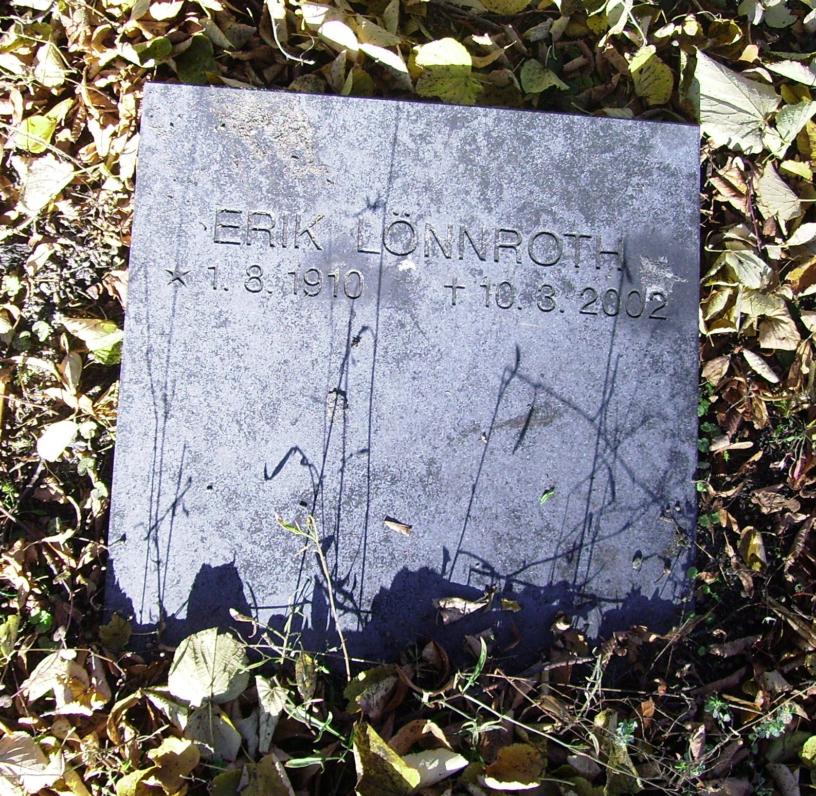 Picture of Erik Lönnroth's (historian) grave at Östra kyrkogården in Göteborg